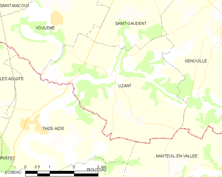 Map of French municipality Lizant